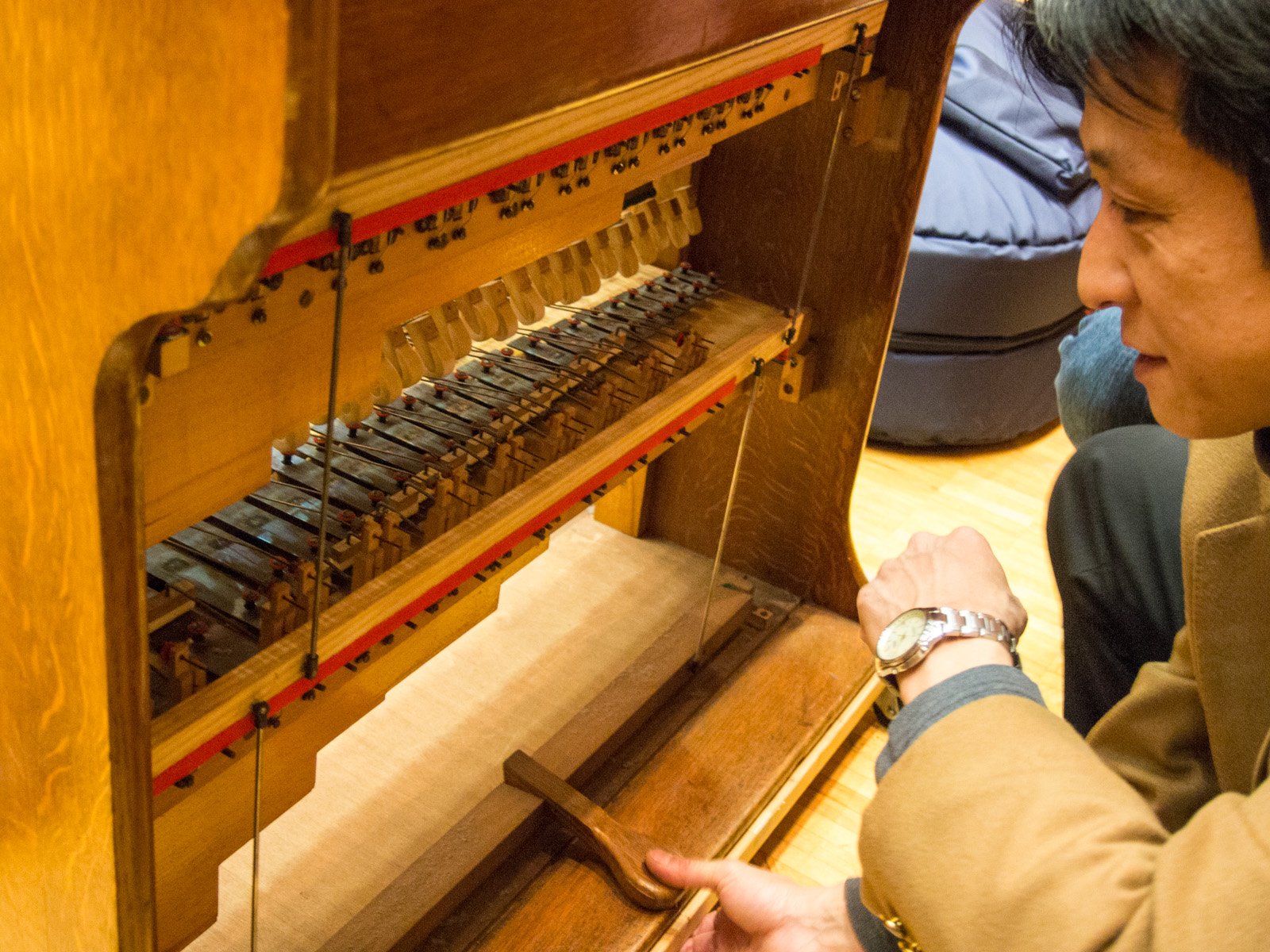 Celesta inside